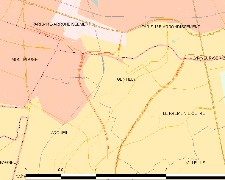 Map of French municipality Gentilly